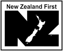 Logo of the New Zealand First political party.